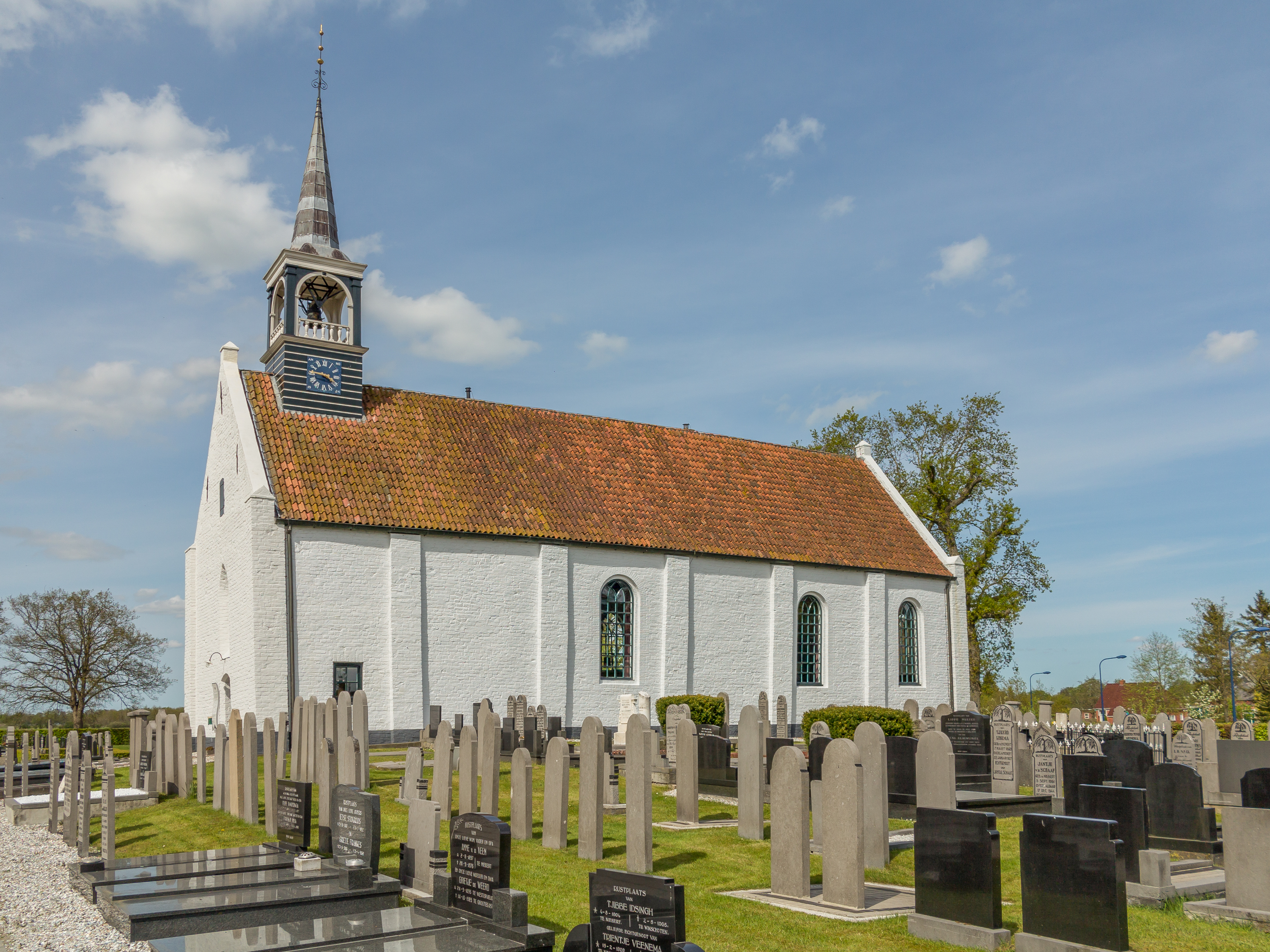 Niebert, reformed church